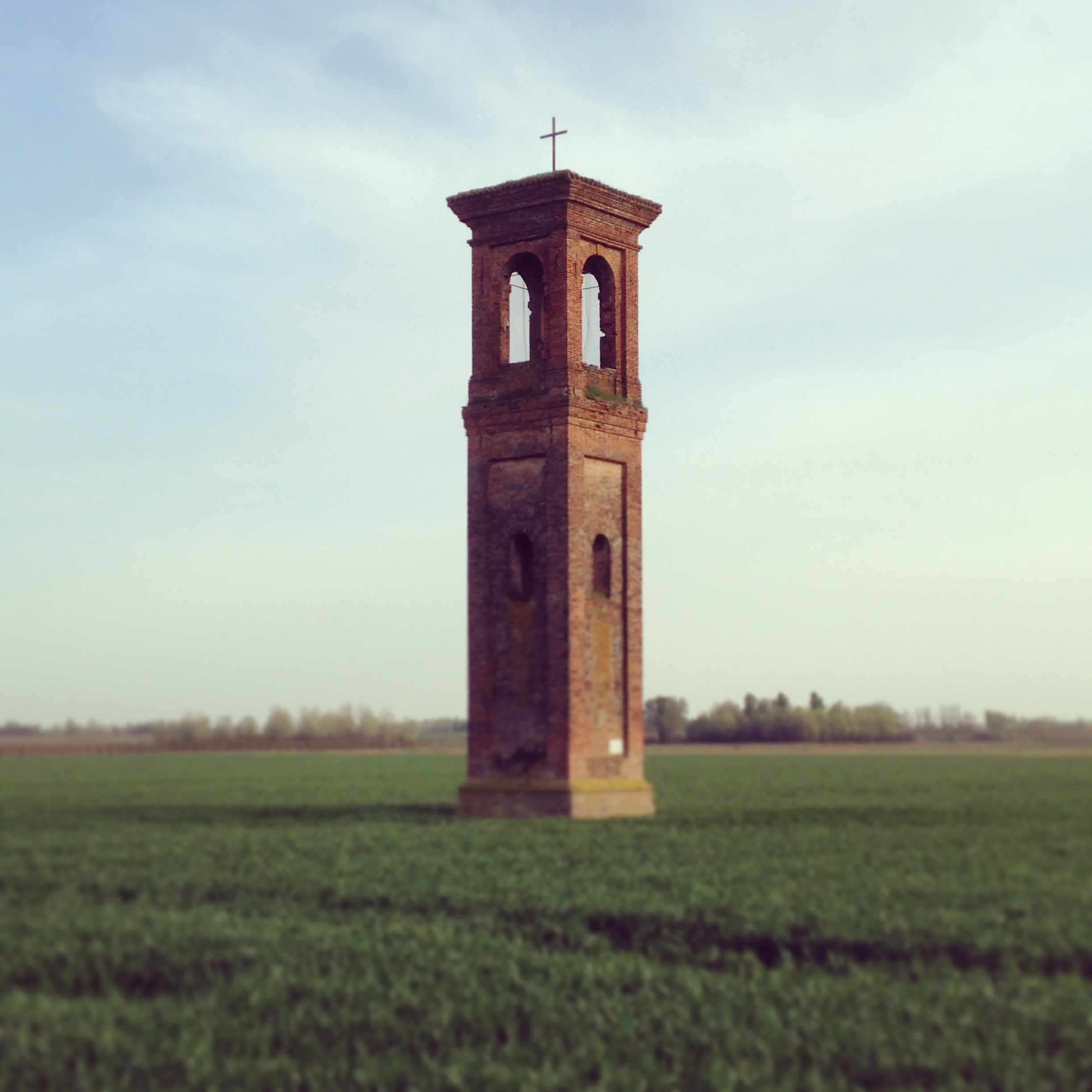 Durazzo belltower